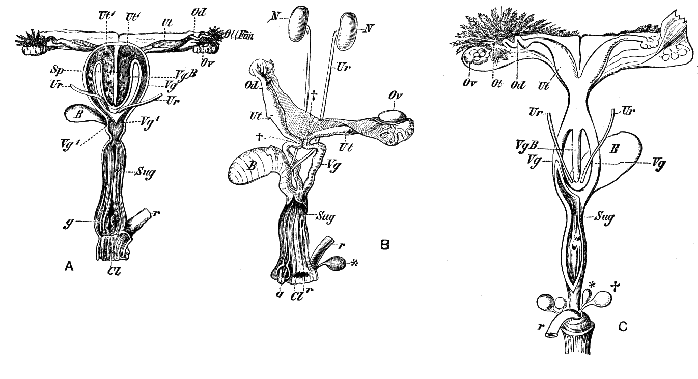 Fig. 48.—Female urino-genital apparatus of various Marsupials. A, Didelphys dorsigera (young); B, Trichosurus; C, Phascolomys wombat. B, Urinary bladder; Cl, "cloaca"; Fim, fimbriae; g, clitoris; N, kidney; Od, Fallopian tube; Ot, aperture of Fallopian tube; Ov, ovary; r, rectum; Sp, septum dividing vagina; Sug, urino-genital sinus; Ur, ureter; Ut, uterus; Ut′, opening of the uterus into the median vagina (VgB); Vg, lateral vagina; Vg′, its opening into the urino-genital sinus; † (in B), point of approximation of uteri; † (in C) and *, rectal glands. (From Wiedersheim's Comparative Anatomy.)